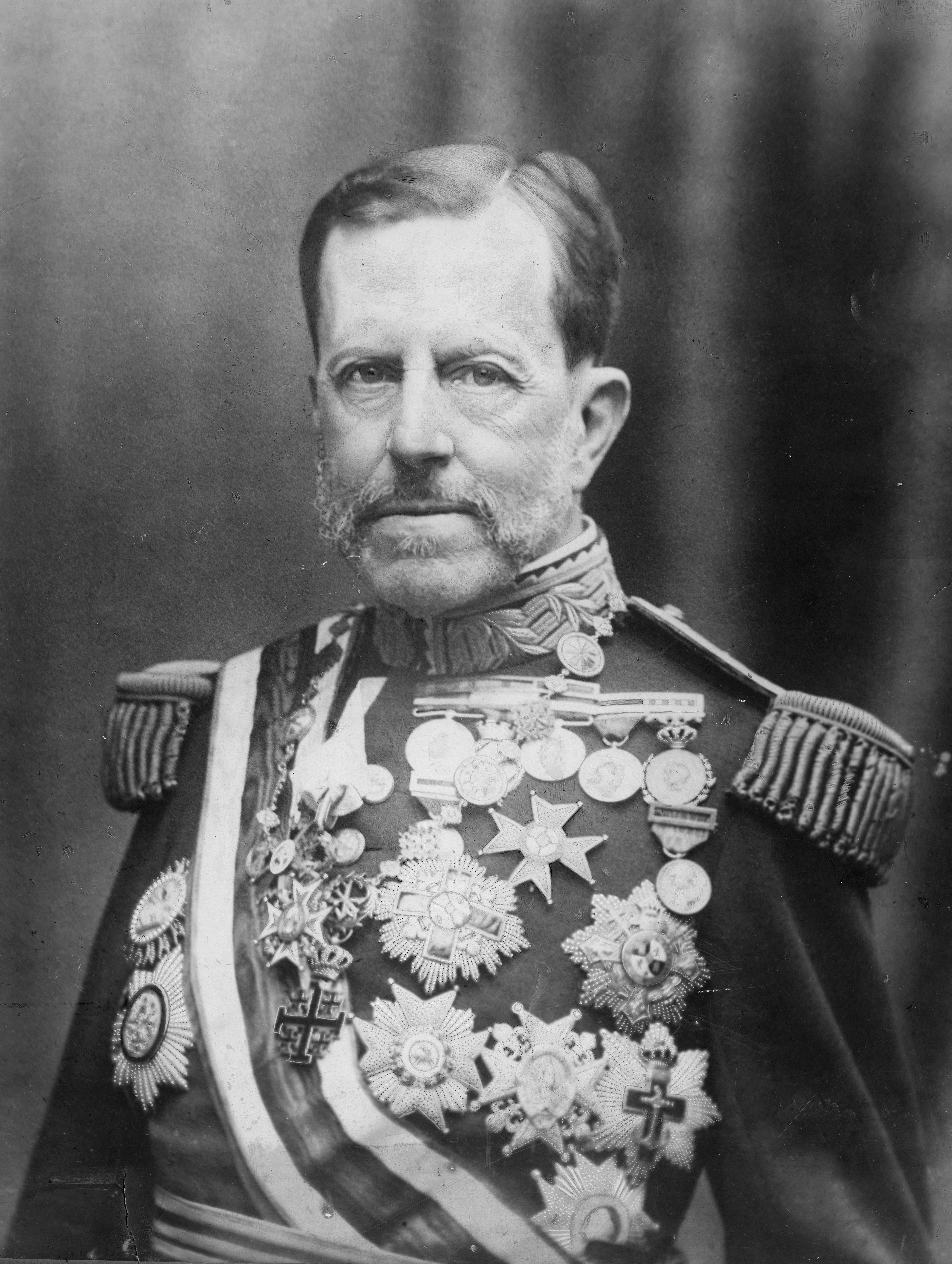 Portrait of Valeriano Weyler This is a retouched picture, which means that it has been digitally altered from its original version. Modifications: Merging of the two files into one image, cropped by Barbudo Barbudo + Colour & minor background imperfection fix.